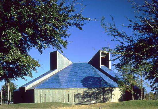 Presbyterian Church in Tampa, Florida, designed by John Howey